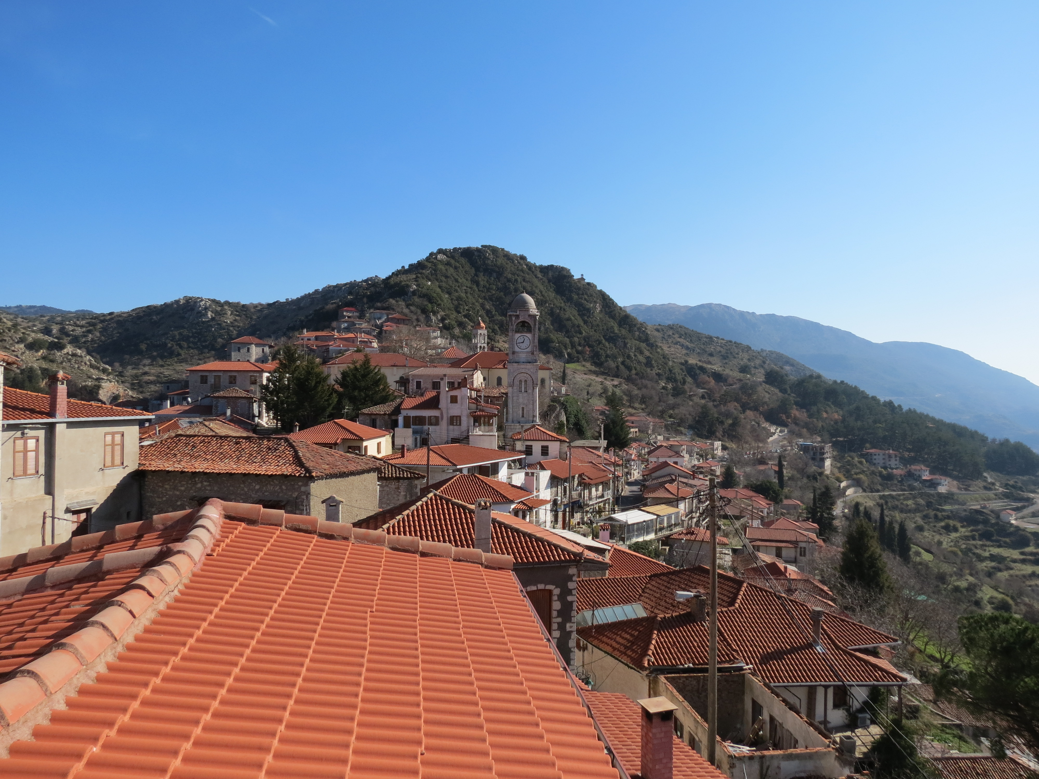 View of Dimitsana village at Arkadia, Greece